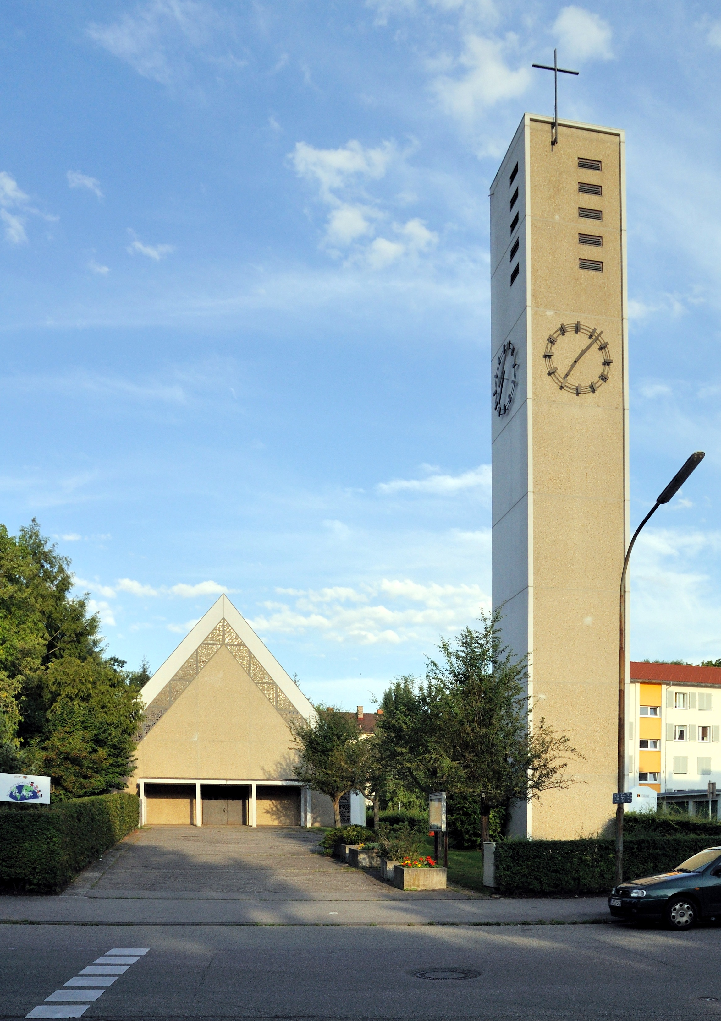 Lörrach: Holy Family church